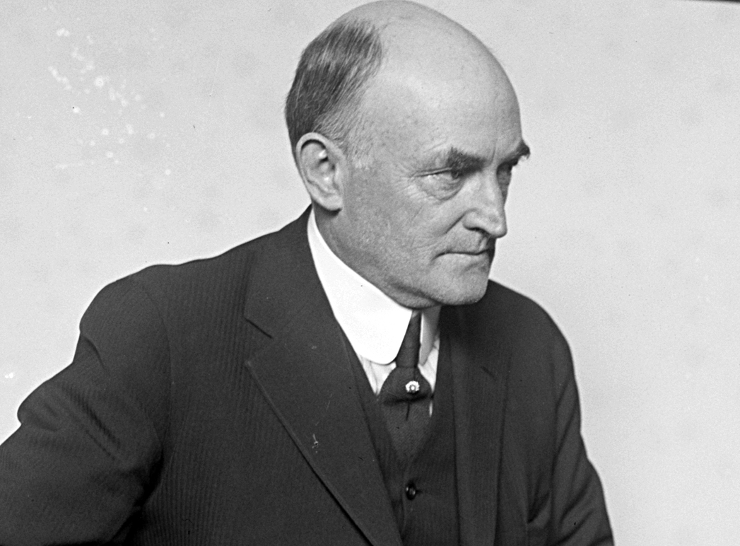 John I. Nolan, US Representative from California